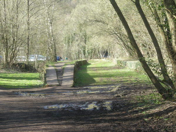 All that remains of Oakamoor railway station.